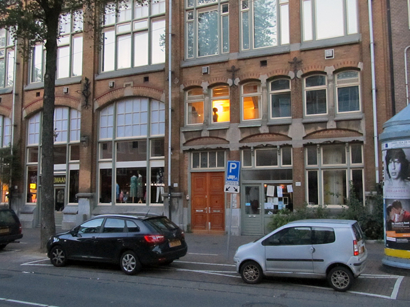 Entrance of the alternative gay disco De Trut at the Bilderdijkstraat in Amsterdam